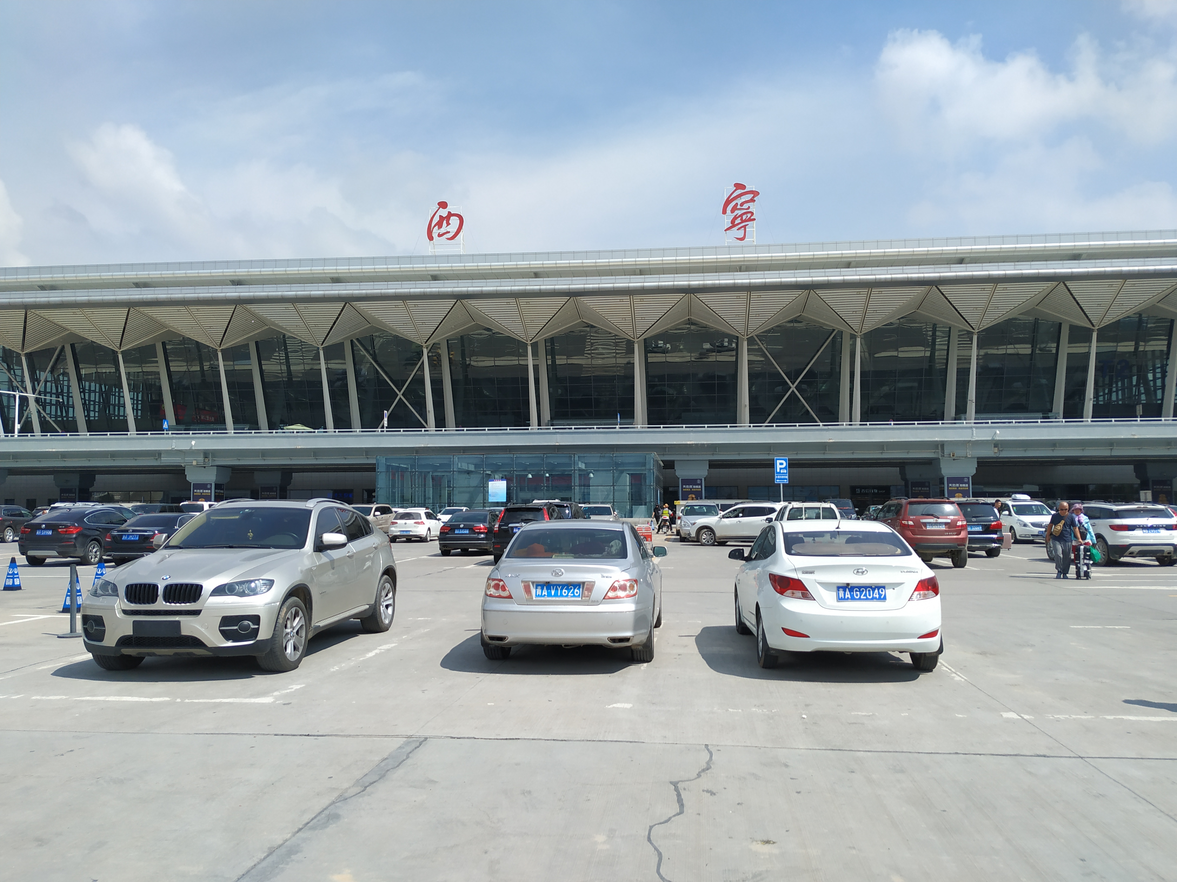 Xining Caojiabao Airport